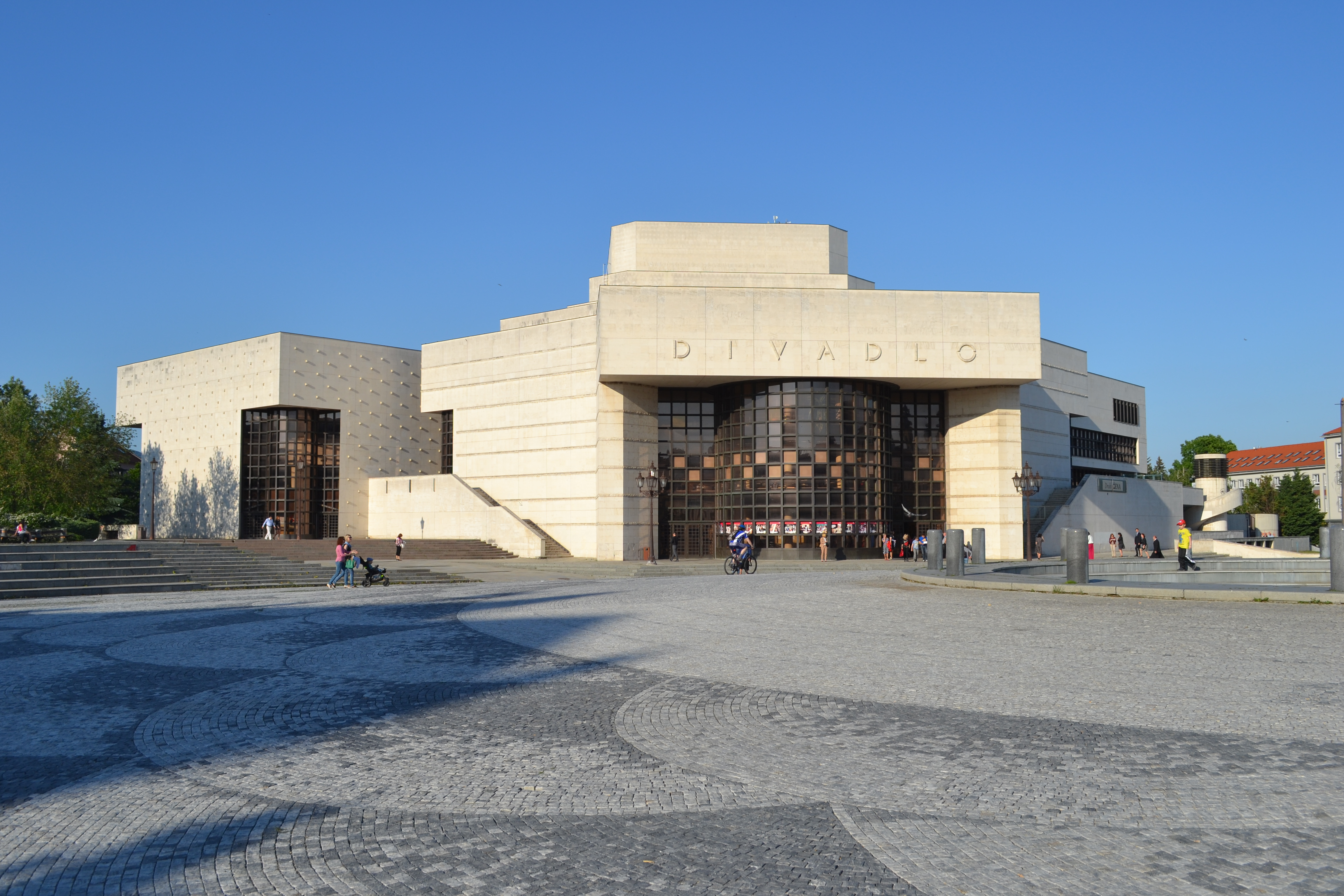 Andrej Bagar Theater in NitraSlovenčina: Divadlo Andreja Bagara v Nitre